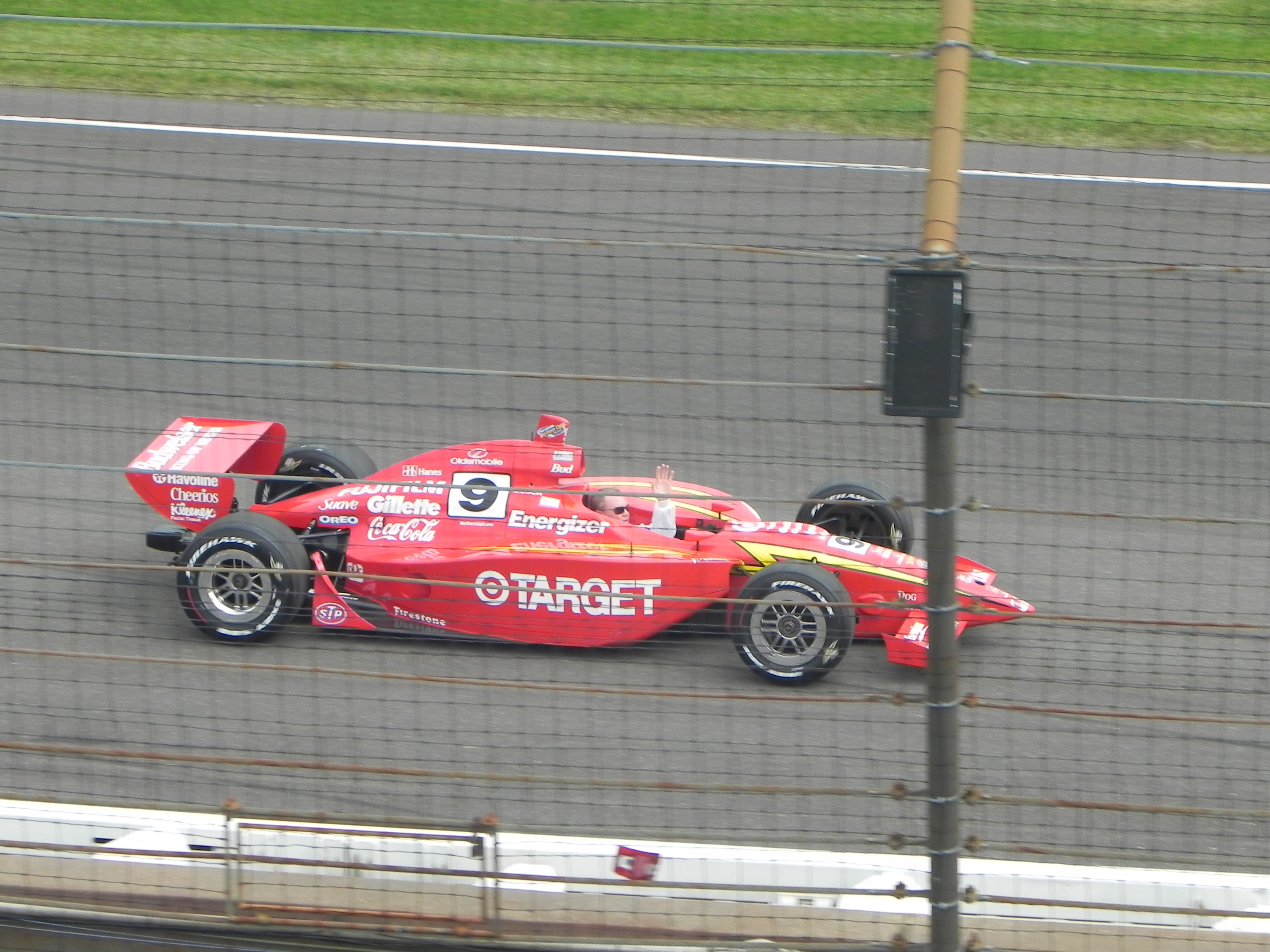 Image of the winning car of the 2000 Indianapolis 500 (Juan Pablo Montoya). Photo was taken at the Indianapolis Motor Speedway in 2011.